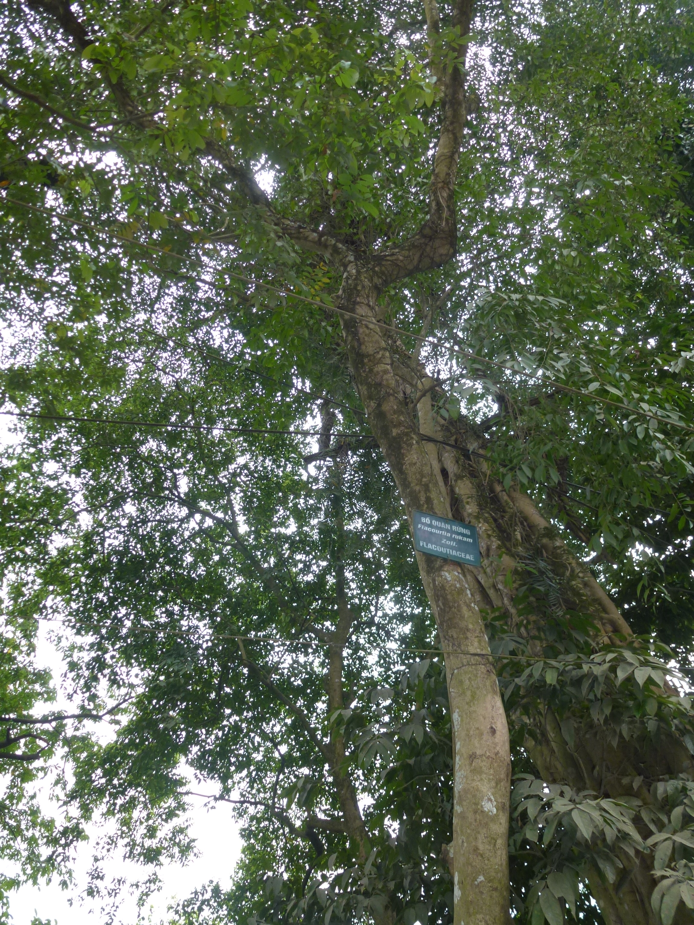 Flacourtia rukam at Hùng Temple, Vietnam